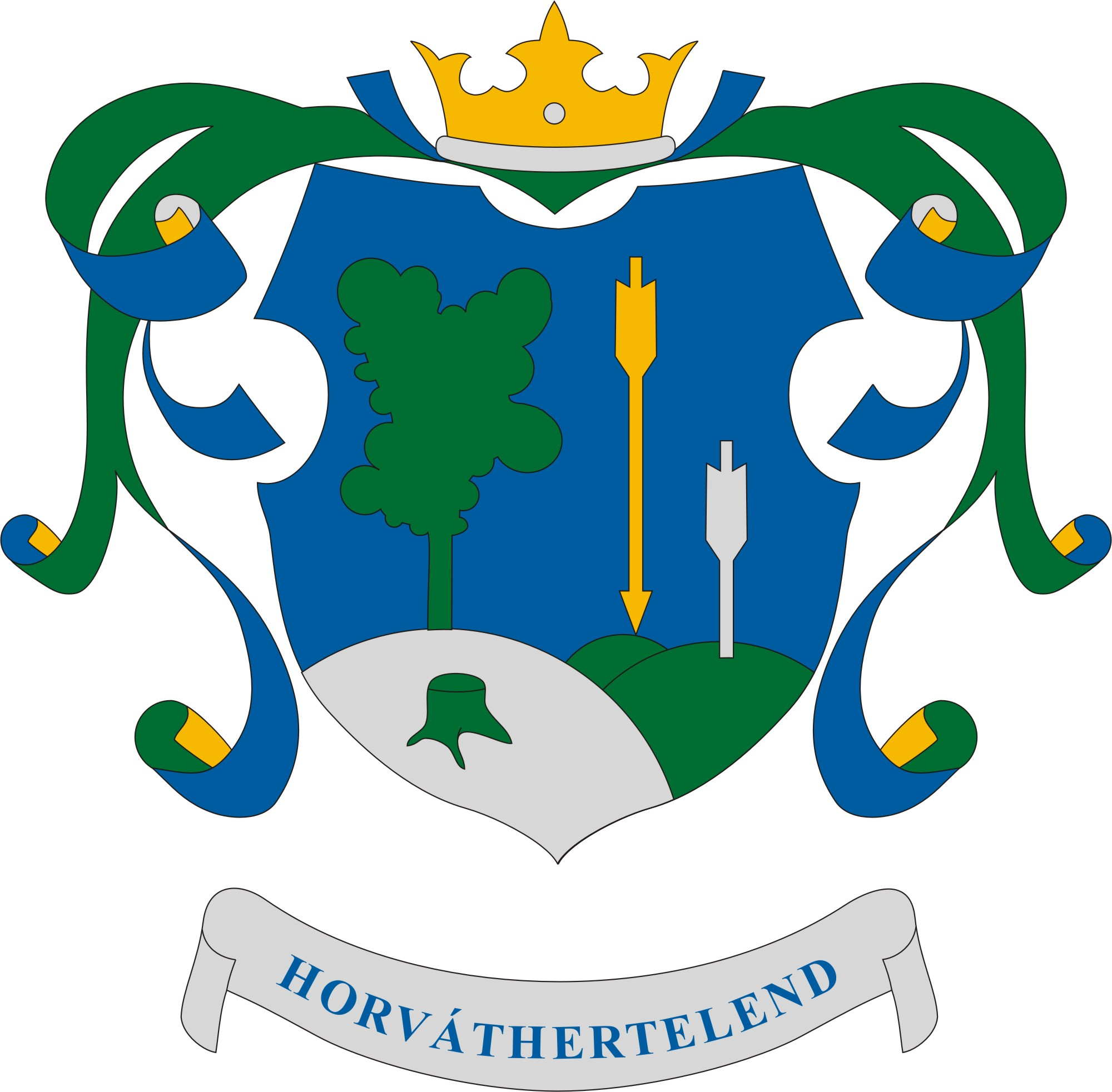 Coat of arms of Horváthertelend, Hungary